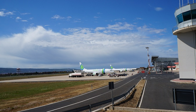 Comiso Airport, apron with two 737-800 of Transavia France (F-GZHI, F-GZHN), 18 April 2014.